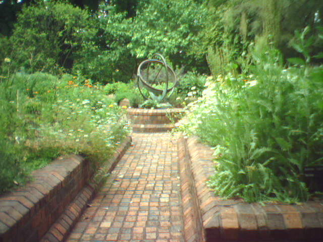 Royal Botanic Gardens Melbourne Herb Garden